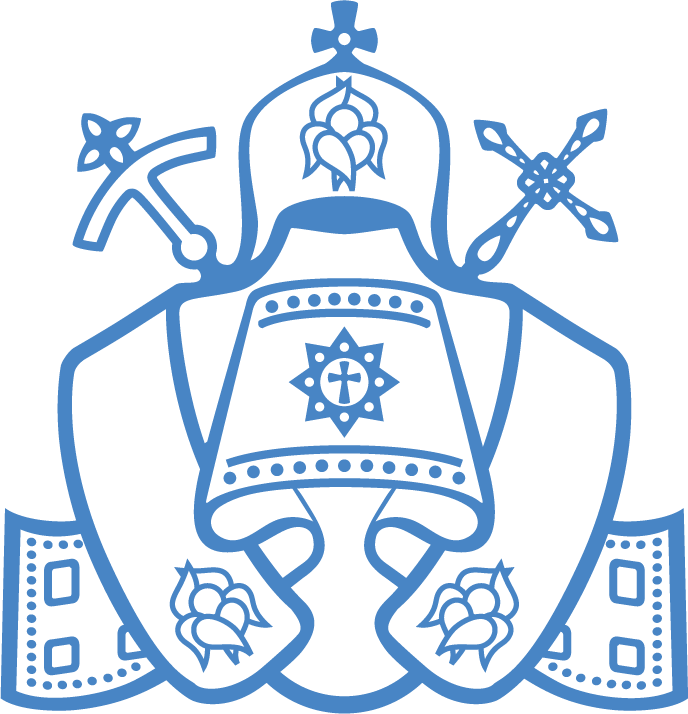 Emblem of the Ukrainian Orthodox Church of the Kyivan Patriarchate.